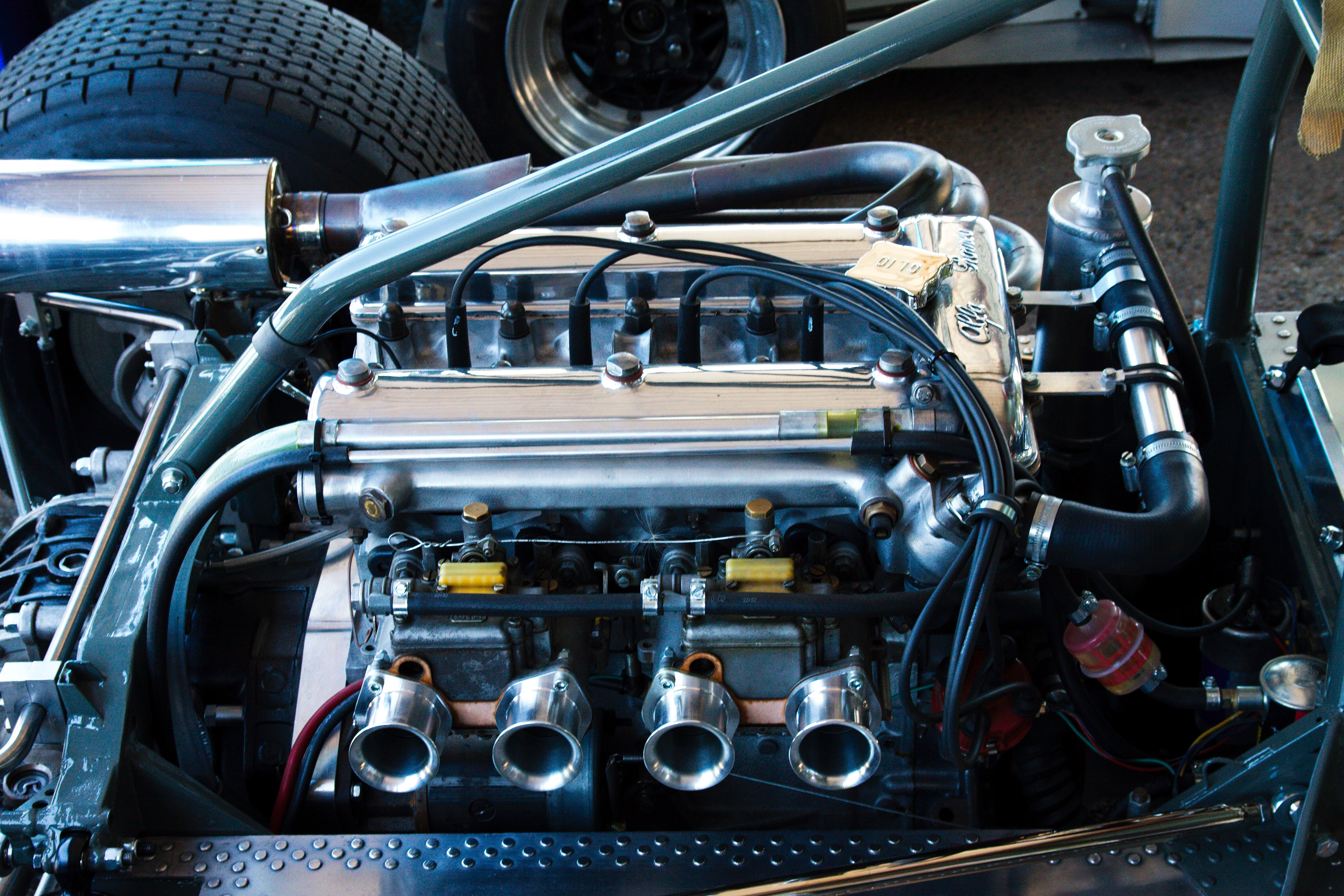 Alfa Romeo twin-cam